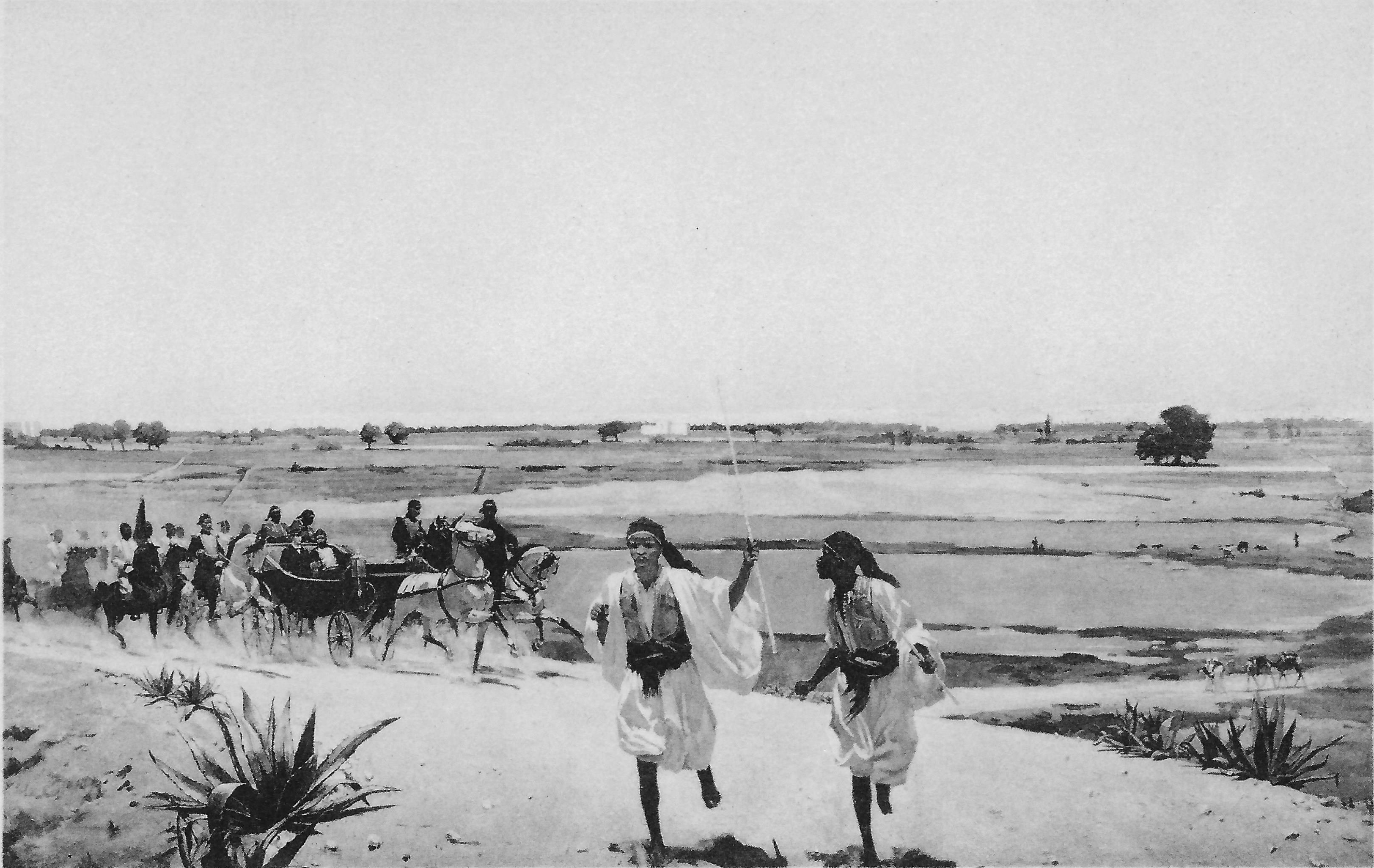 Vip being escorted in an carriage around Cairo in 1880